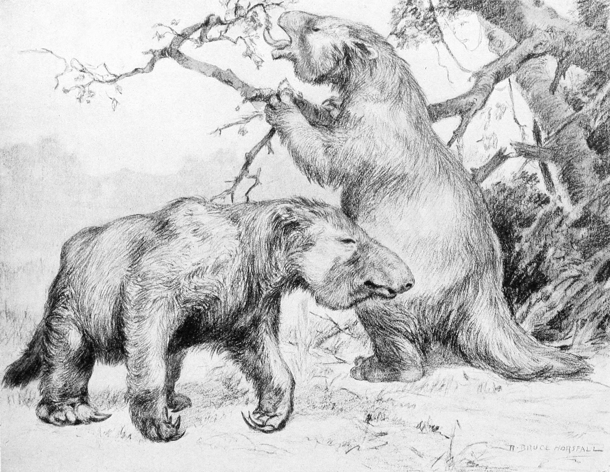 Megatherium americanum.